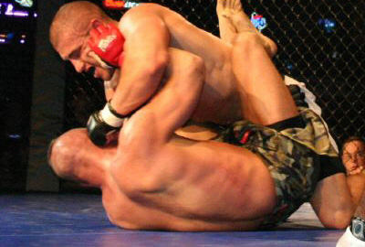 Lance Cpl. George R. Lockhart (right), radio reconnaissance platoon, 2nd Radio Battalion, II Marine Expeditionary Force, pins down opponent Scott Harper during round three of the “Knuckle Up” Mixed Martial Arts Competition in Atlanta, Ga. Feb. 24th. Lockhart won by a technical knockout in the third round and won his second light heavyweight championship title.